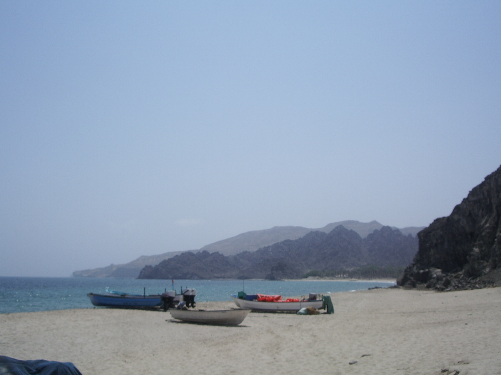 A beach in muscat, Oman